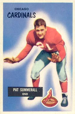 American football player Pat Summerall on a 1955 Bowman card.